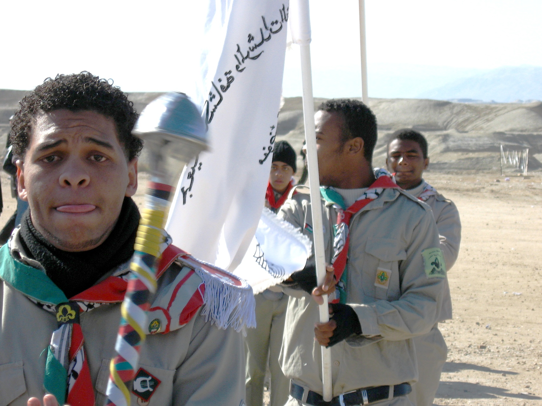 Palestinian Christians celebrating the Eve of the Epiphany (Paramony) at Bethabara (near Qasir al-Yahud in West Bank, approx. 5 km East of Jericho) where, according to the Eastern Orthodox tradition, Jesus was baptized in the Jordan River. The ceremony is held according to the Old calendar (followed by the Greek Orthodox Church of Jerusalem) on January 5, which is January 18 in the Gregorian Calendar. The riverside site where the baptism is believed to have taken place is located in what has been a closed Israeli military zone since the Second Intifada (September 2000). The Israeli authorities allow pilgrims access in the Eve and on the Epiphany days.